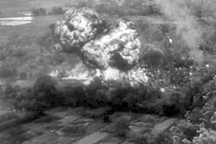 News Magazine of the Screen, The (Vol. 4, Issue 4) (1953/12): "The war in Indo-China goes on."